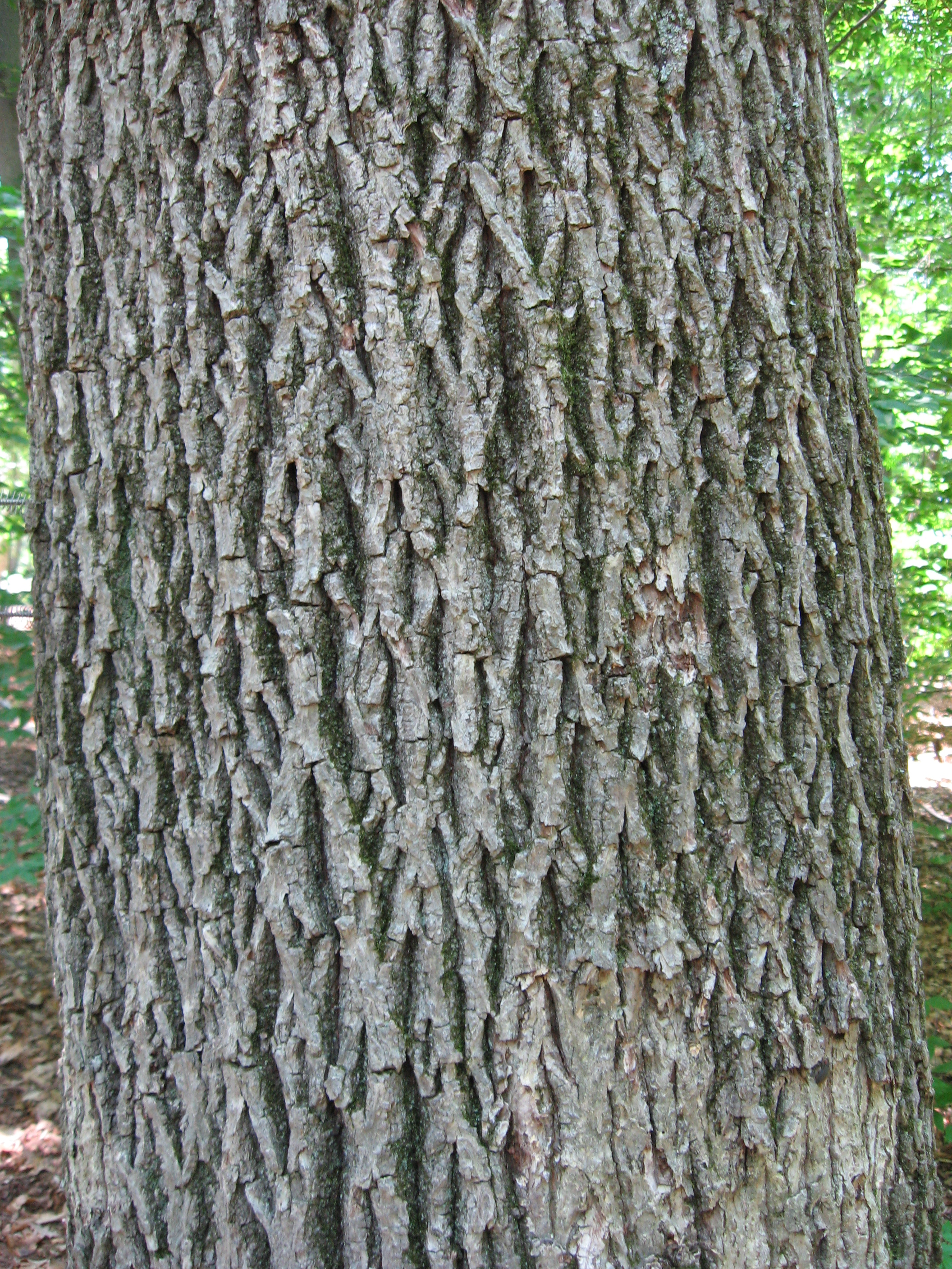 A picture of Carya tomentosa. The tree was found at the Lewis W. Barton Arboretum and Nature Preserve at Medford Leas.